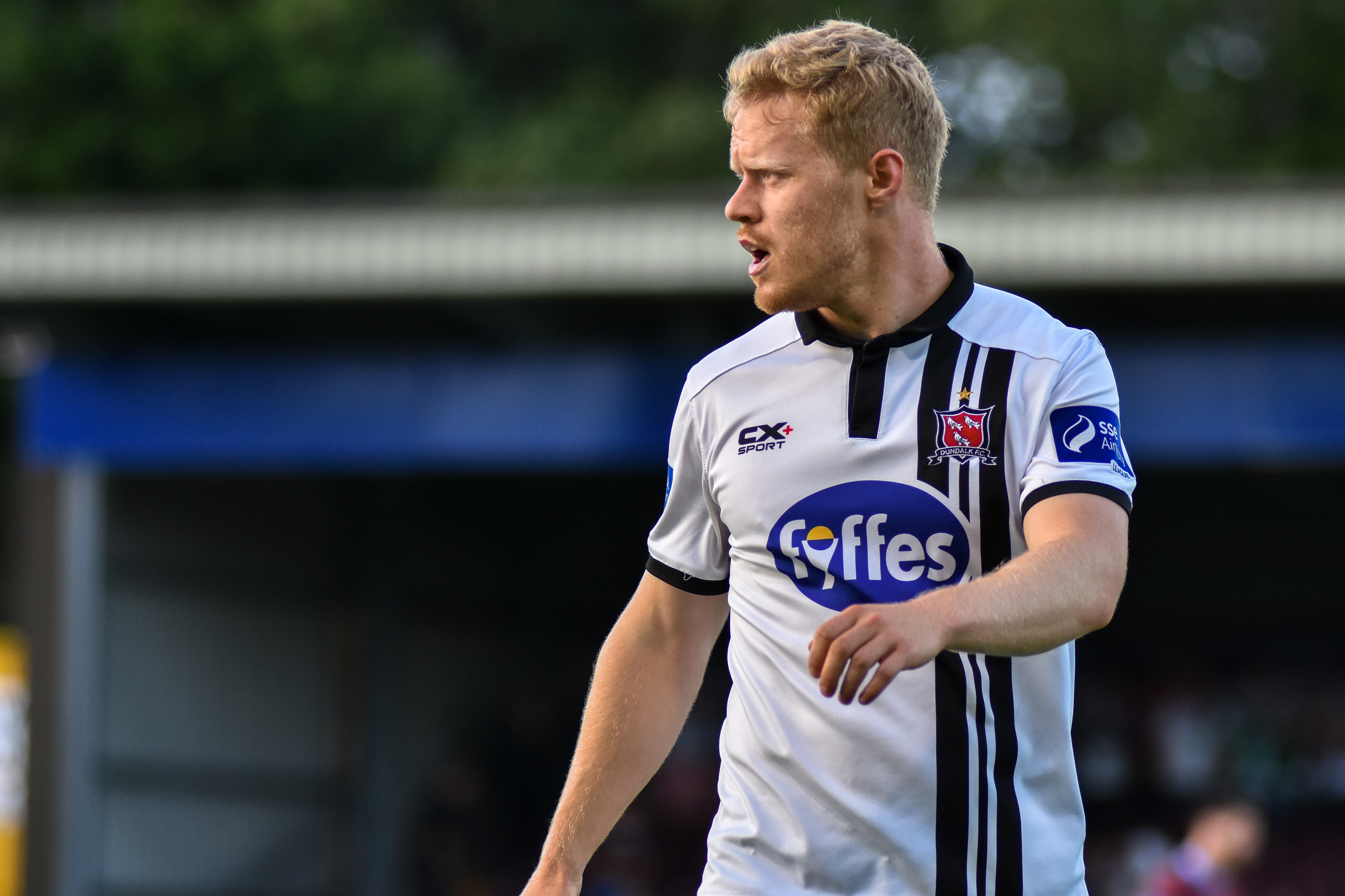 Daryl Horgan in action for Dundalk FC against Galway United in the 2016 League of Ireland